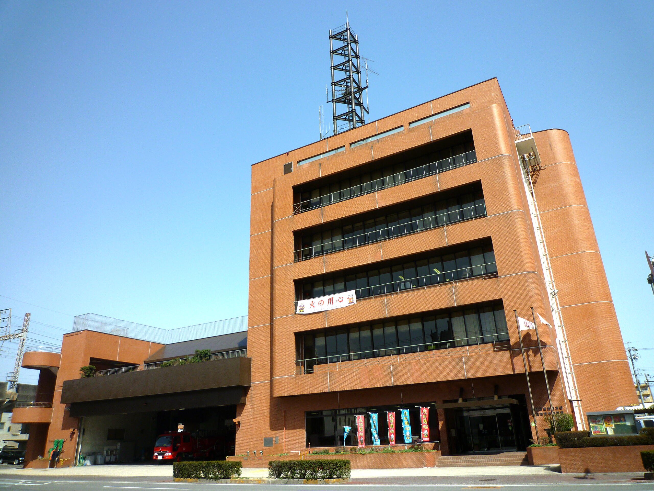 The "Yokkaichi City Central Fire Station" in Nishi-Shinchi, Yokkaichi City, Mie Prefecture, Japan.